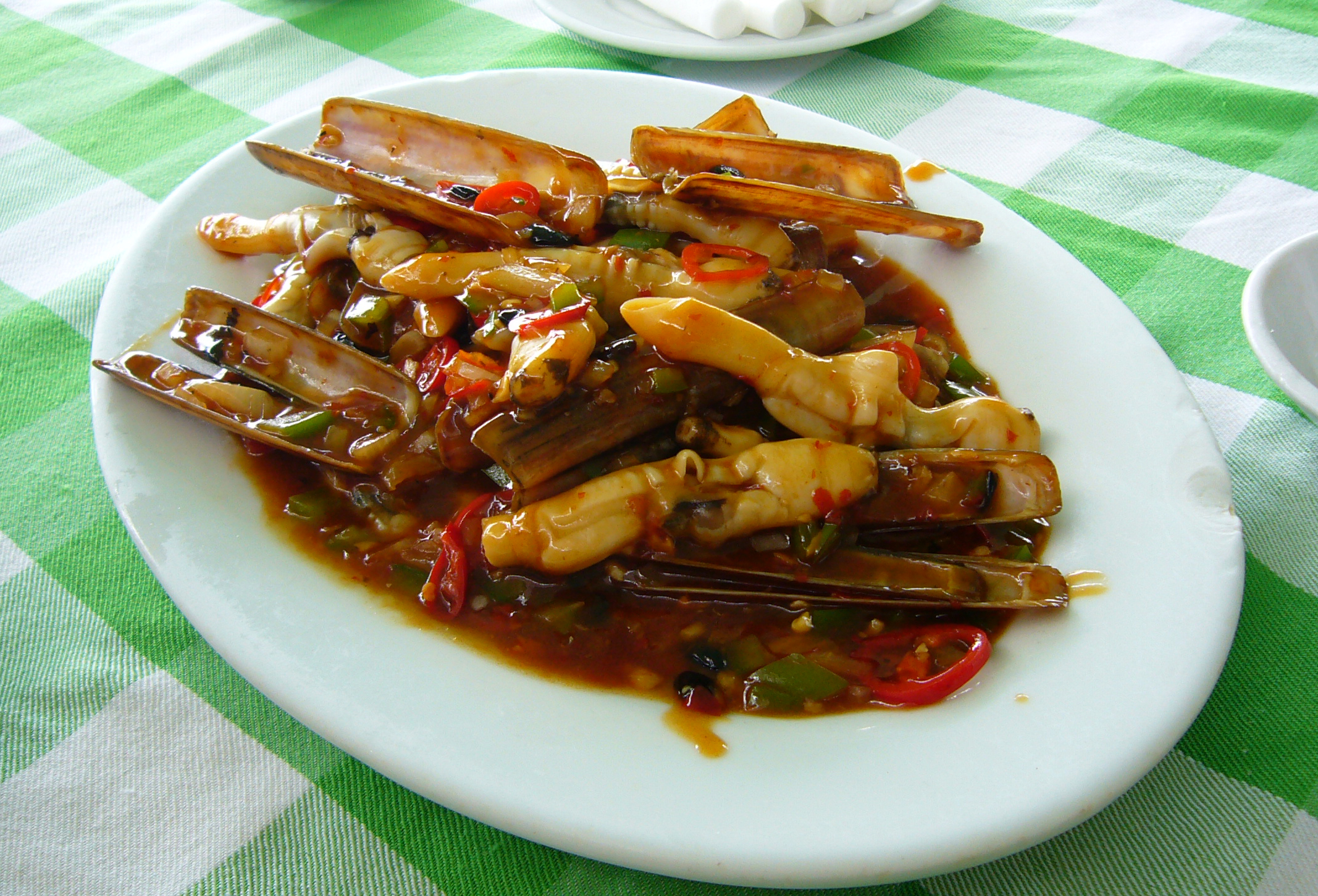 Stired-fried Razor Clams with Black Beans and Pepper